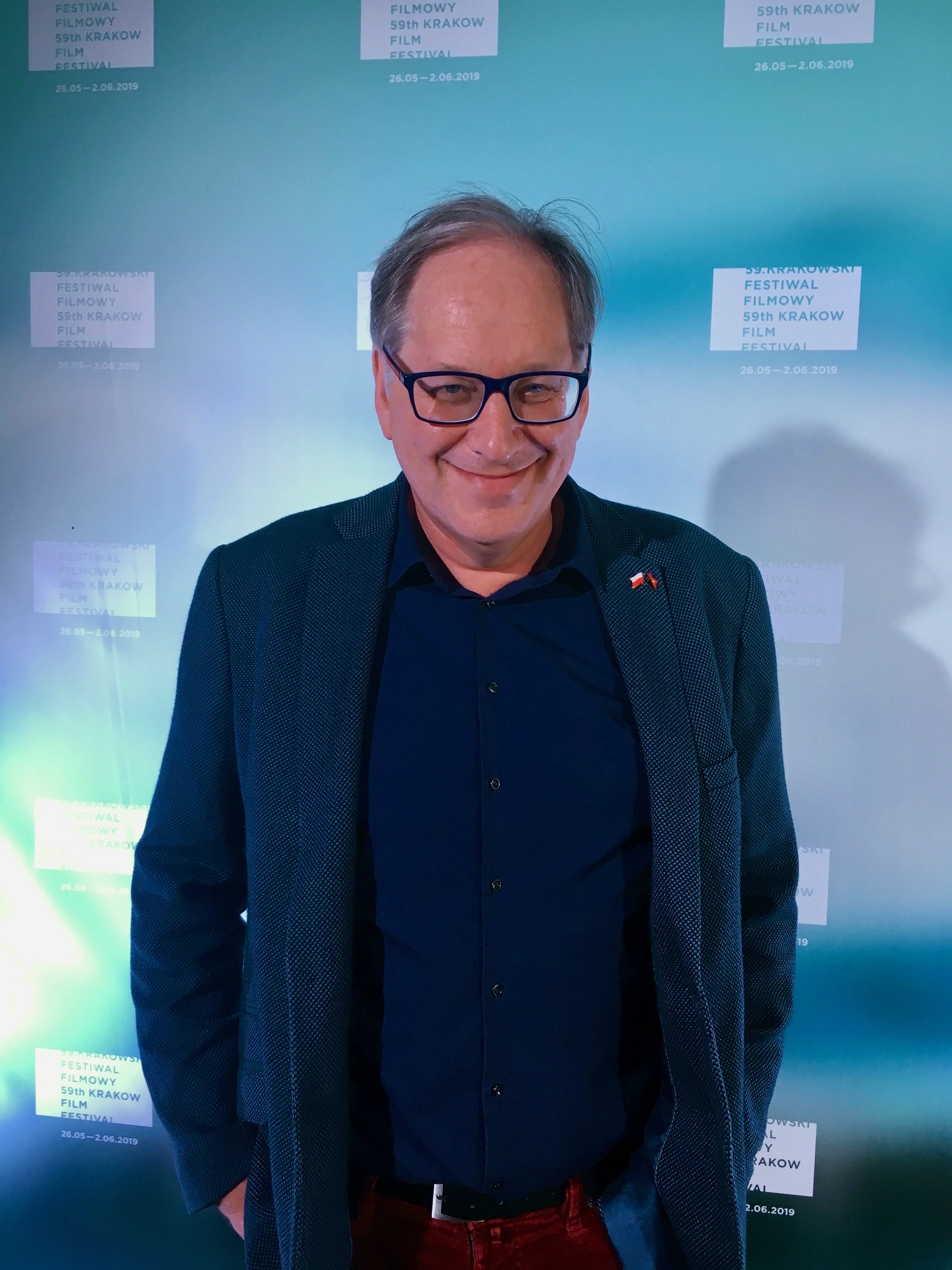 Simon Target at Kraków Film Festival 2019